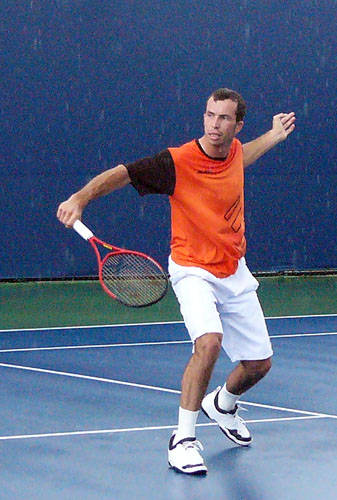 Radek Stepanek practising at the 2008 Rogers Cup